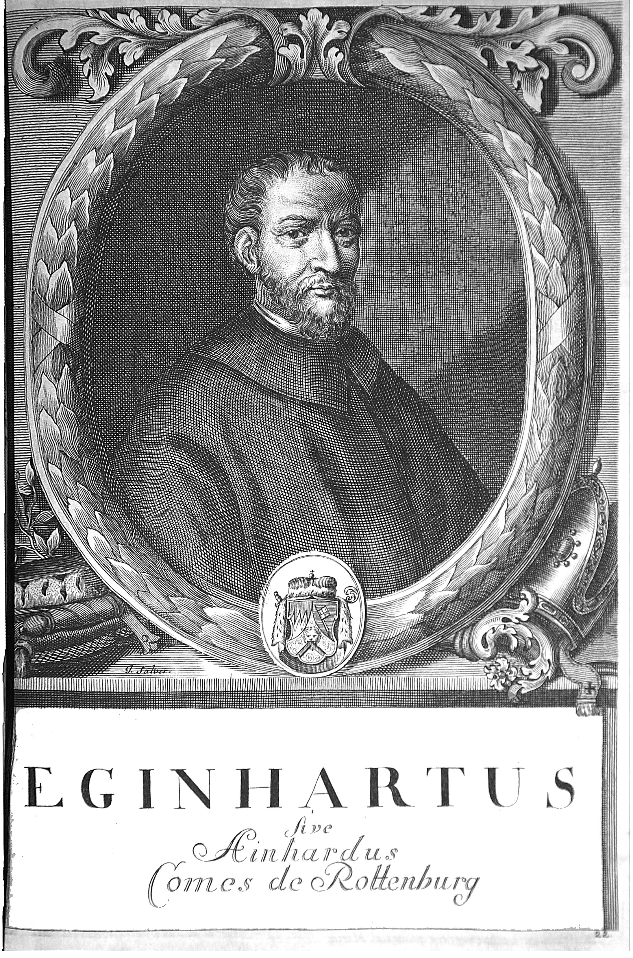 Emehard († 27. Februar 1105 in Würzburg) Bishop of Würzburg 1089 to 1105.